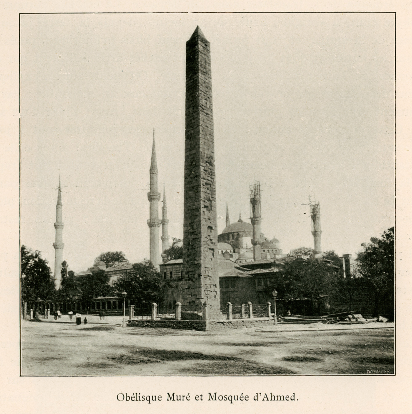 Hermann Barth. Constantinople par H. Barth. Les Villes d’Art Célèbres. Paris, Librairie Renouard-H. Laurens, 1913.